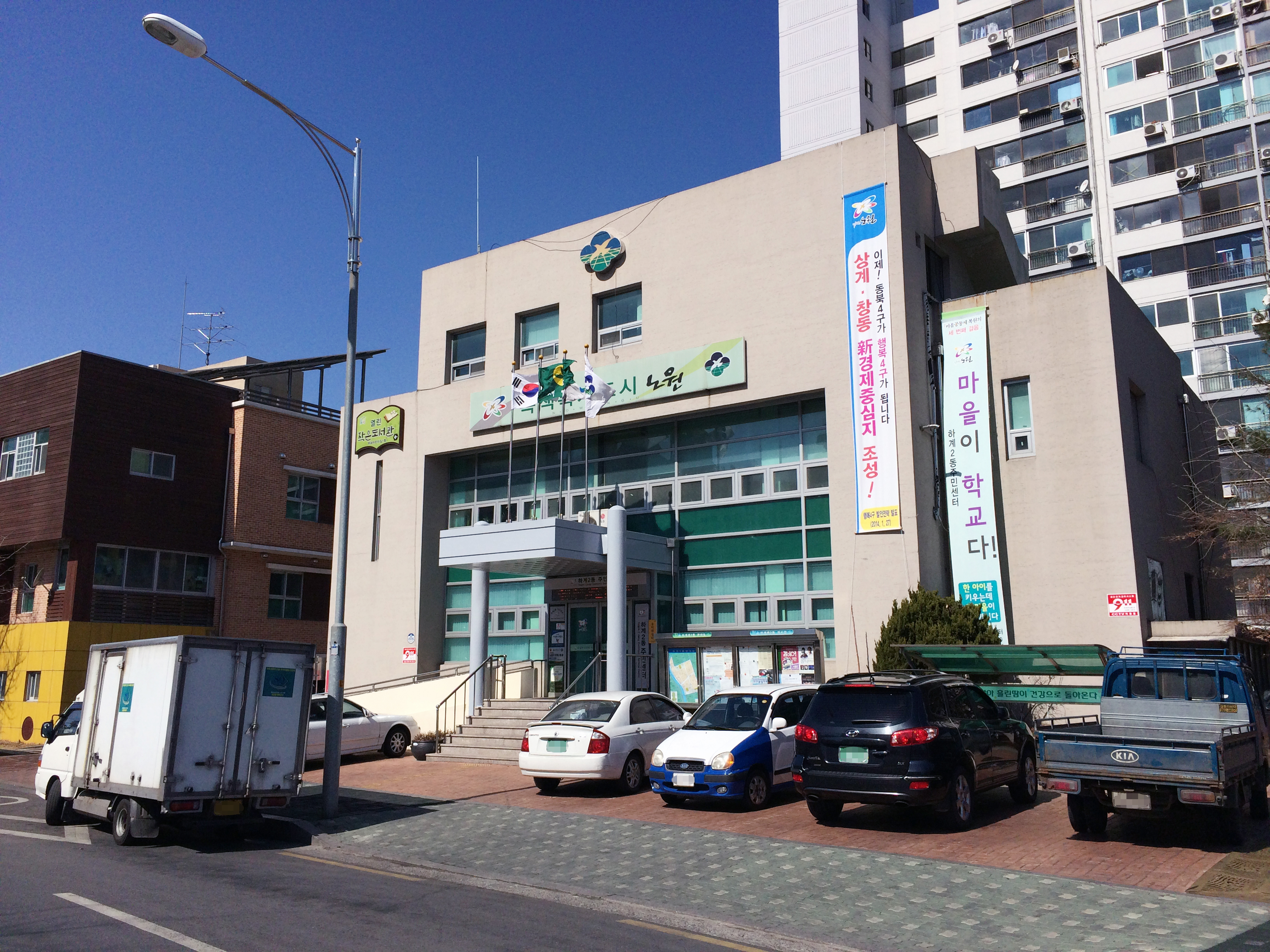 Hagye 2-dong Comunity Service Center (Nowon-gu)